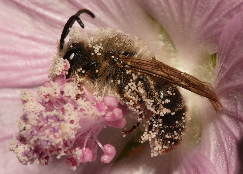 Melitta haemorrhoidalis, male. Location: Rhenen - Blauwe Kamer (The Netherlands)